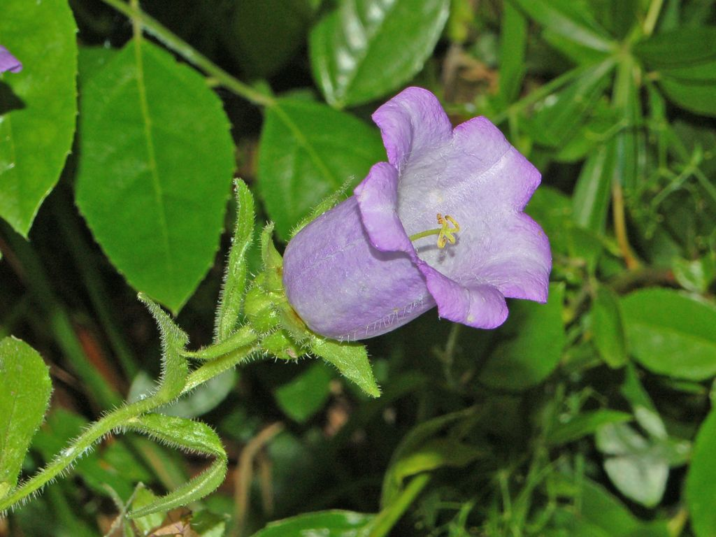 Campanula medium - Genova, Italy